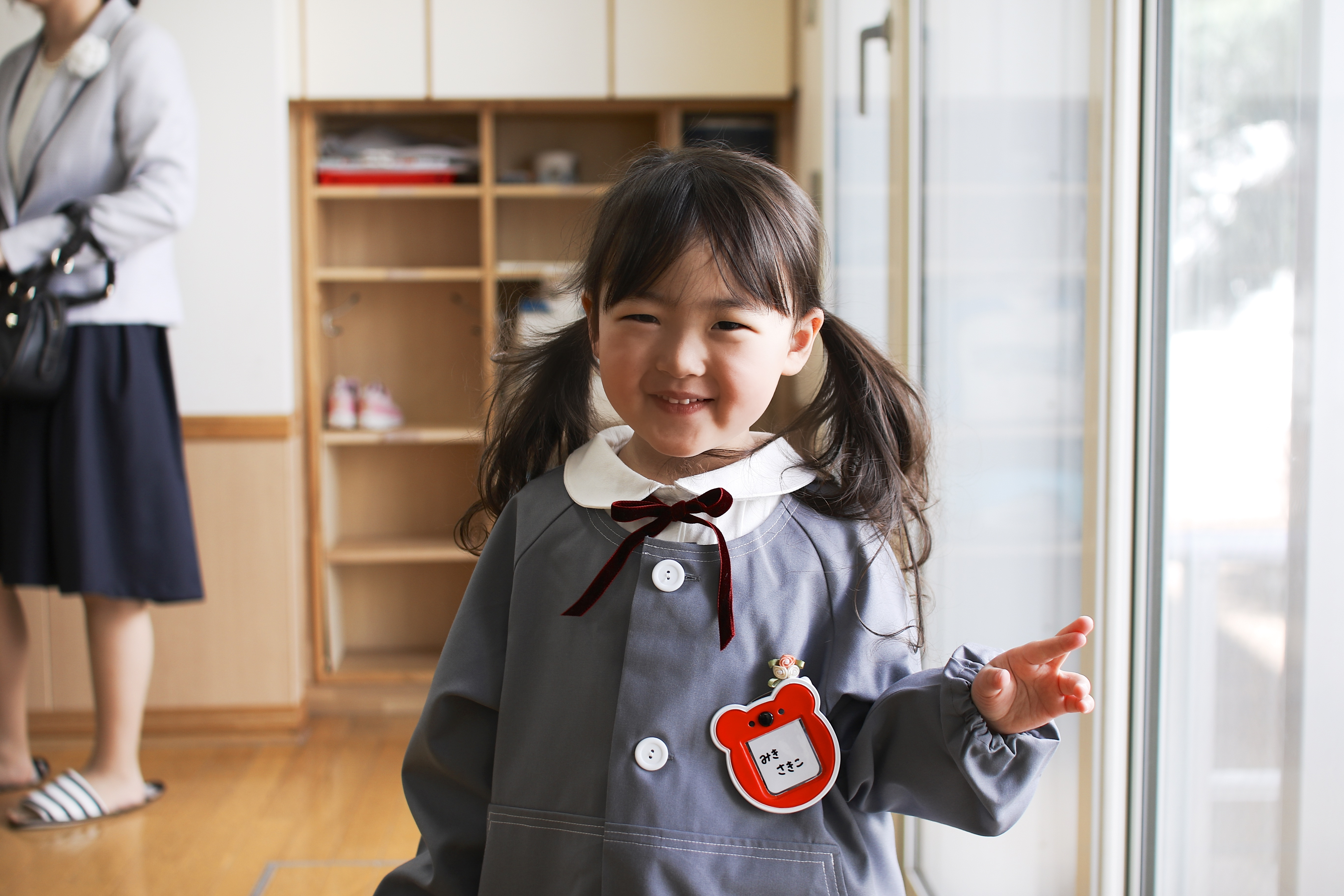 A girl at a Japanese kindergarten entrance ceremony, April 2019.